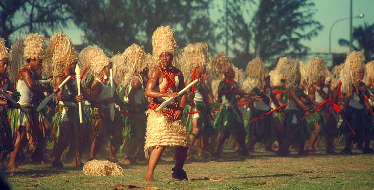 Tonga College students performing a Kailao dance; photo James Foster 1988.jpg